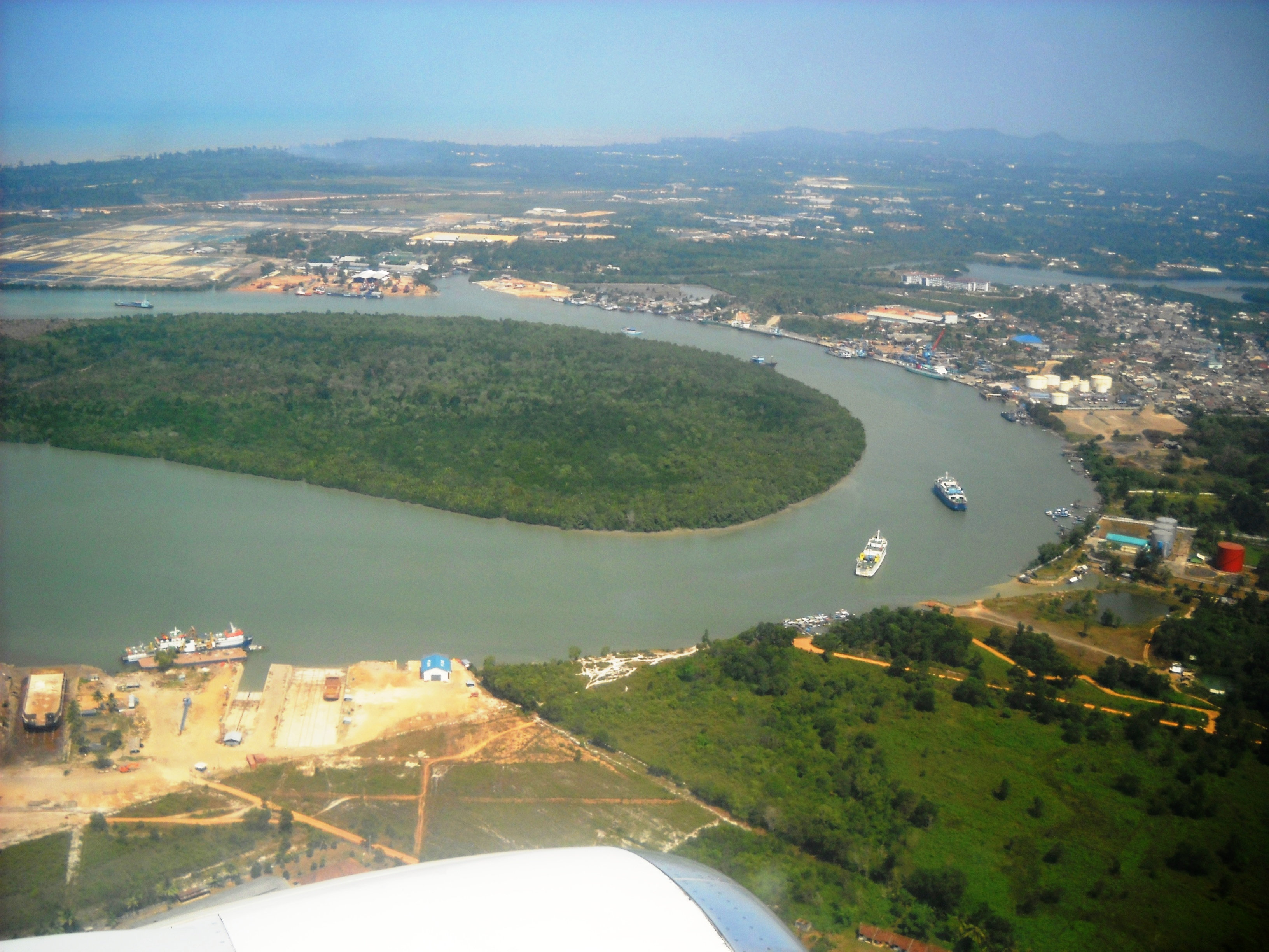 aerial view of baturusa river in 2012 from a plane.